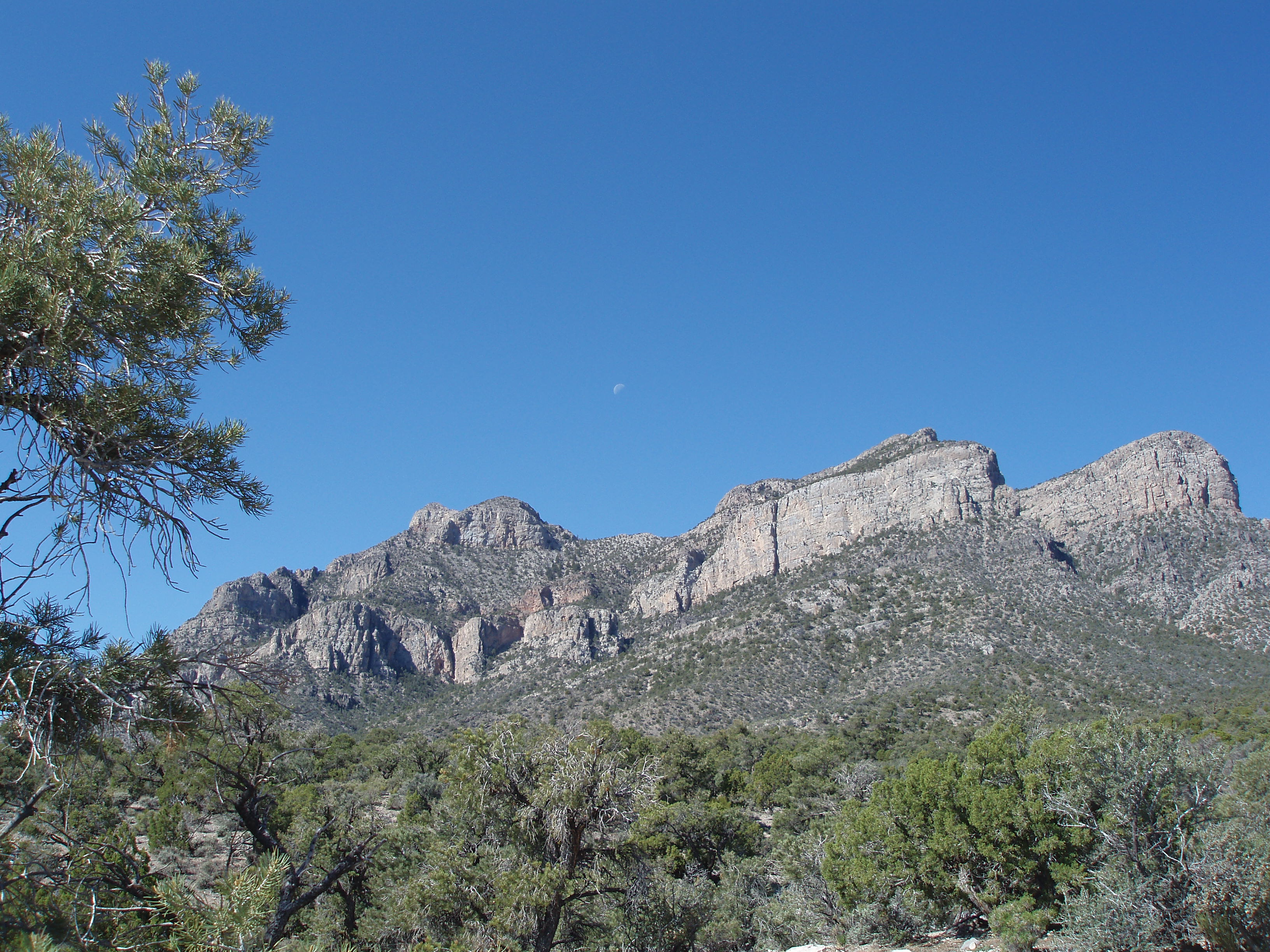 The Worthington Mountains feature a unique blending of flora and fauna from both the Great Basin and Mohave deserts. Wildlife species inhabiting this wilderness area include mountain lions, bobcats, mule deer, desert bighorn sheep, kit foxes, coyotes, and raptors, as well as smaller common mammal and reptile species.